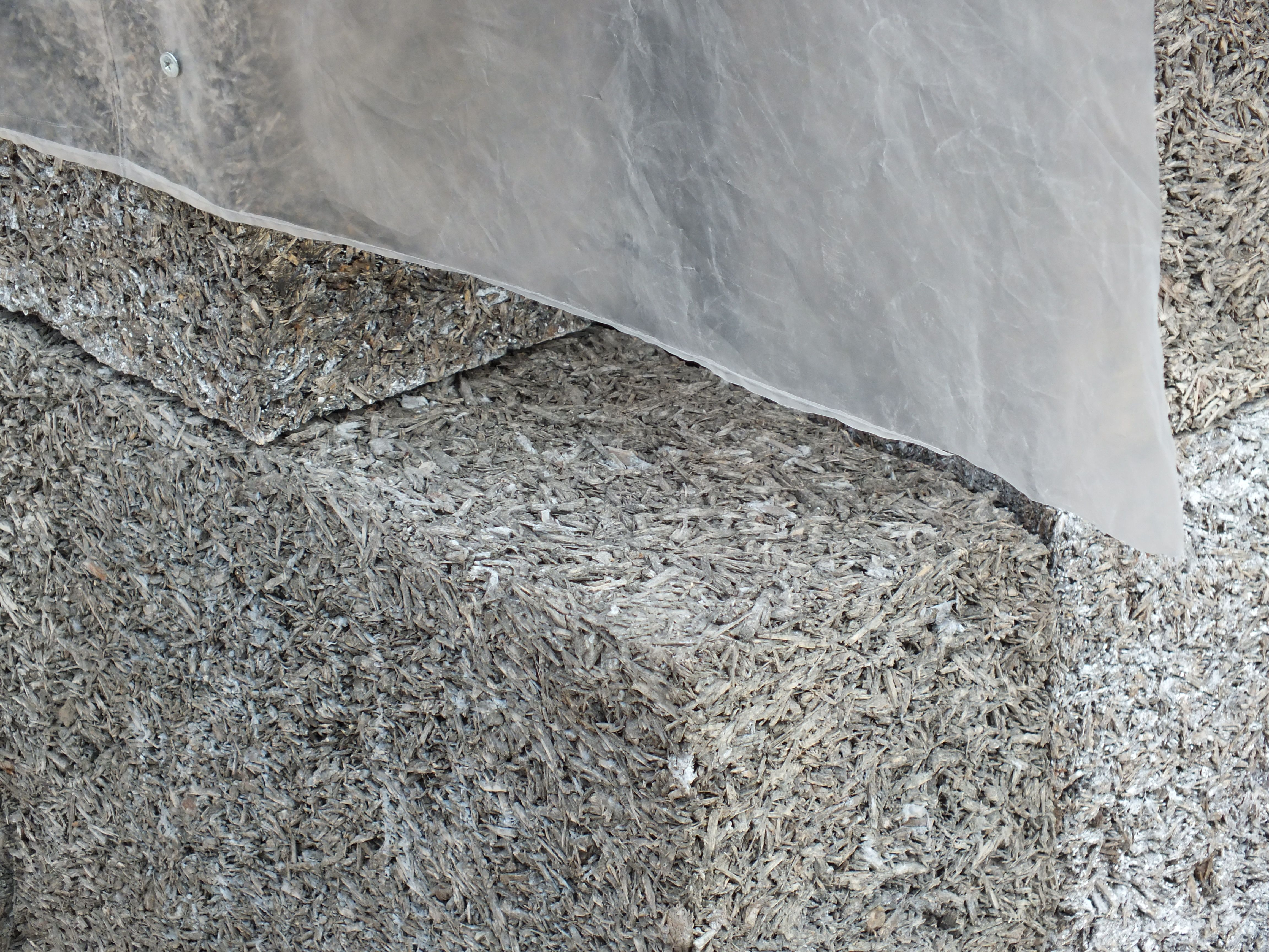 Papercrete